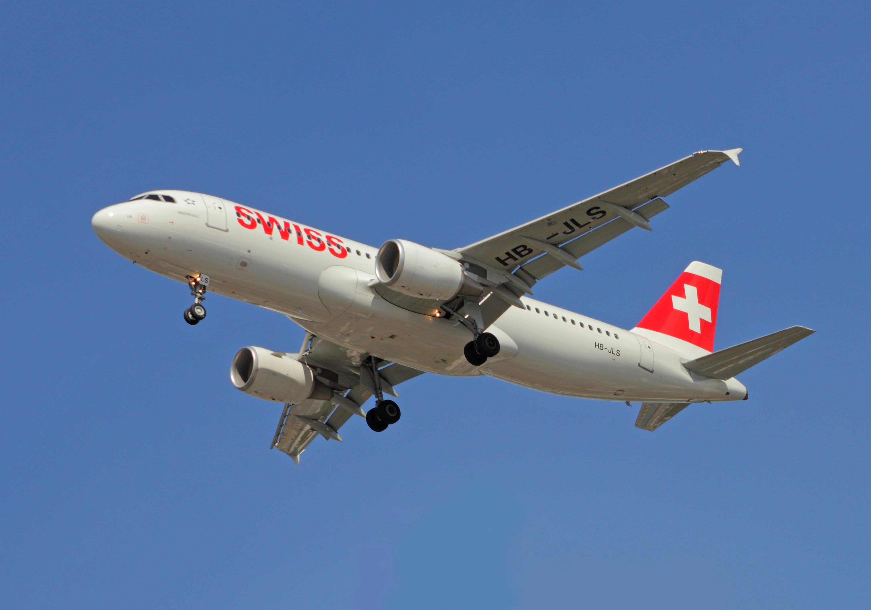 Swiss International Air Lines passenger aircraft HB-JLS approaching Berlin-Tegel.